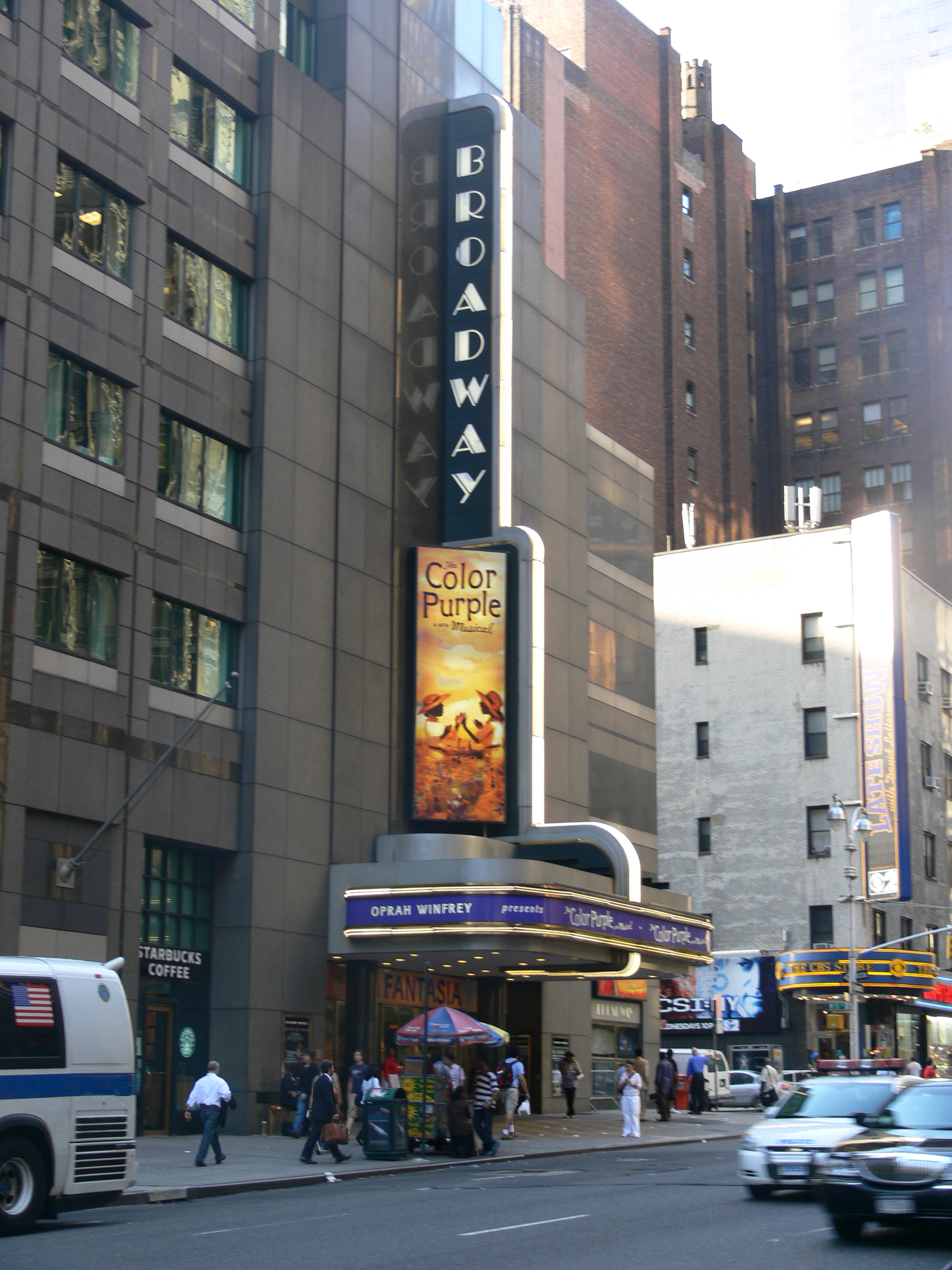 The Broadway Theatre, showing the musical The Color Purple 1681 Broadway, Manhattan, New York City